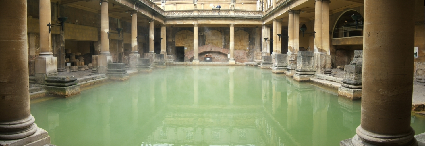 The roman baths in Bath